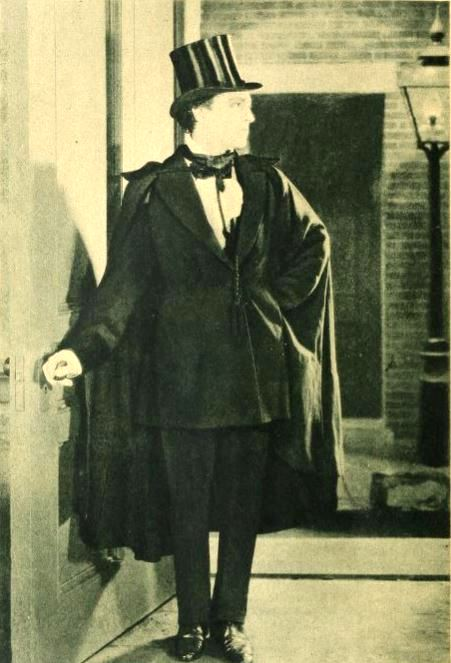 Still from the American silent film Dr. Jekyll and Mr. Hyde (1920) with John Barrymore, page 34 of the February 1920 Shadowland. The still in the magazine has this caption: "In Dr. Jeckyll's mind there shone the memory of the face he had just left, the face of Millicent."